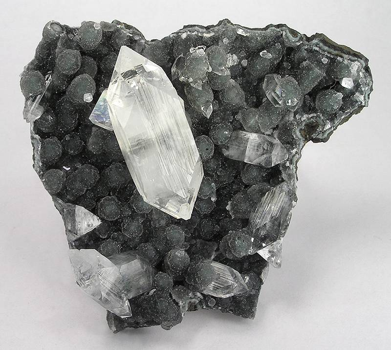 Apophyllite-(KF) Locality: Jalgaon District, Maharashtra, India (Locality at ) Size: cabinet, 11.3 x 10.1 x 4.0 cm Fluorapophyllite This very aesthetic specimen has 1.0 cm spheres of dark gray, lustrous, quartz druse coating a basaltic matrix . Perched jauntily on the quartz are a few crystals of fluorapophyllite, the largest of which is glassy, colorless, doubly terminated, and is 5 cm across. This two-inch crystal is held up tin the air on a stalk of a secondary crystal beneath it, as if balancing. Lovely and, among a big crowd, quite the unique specimen that stands out!